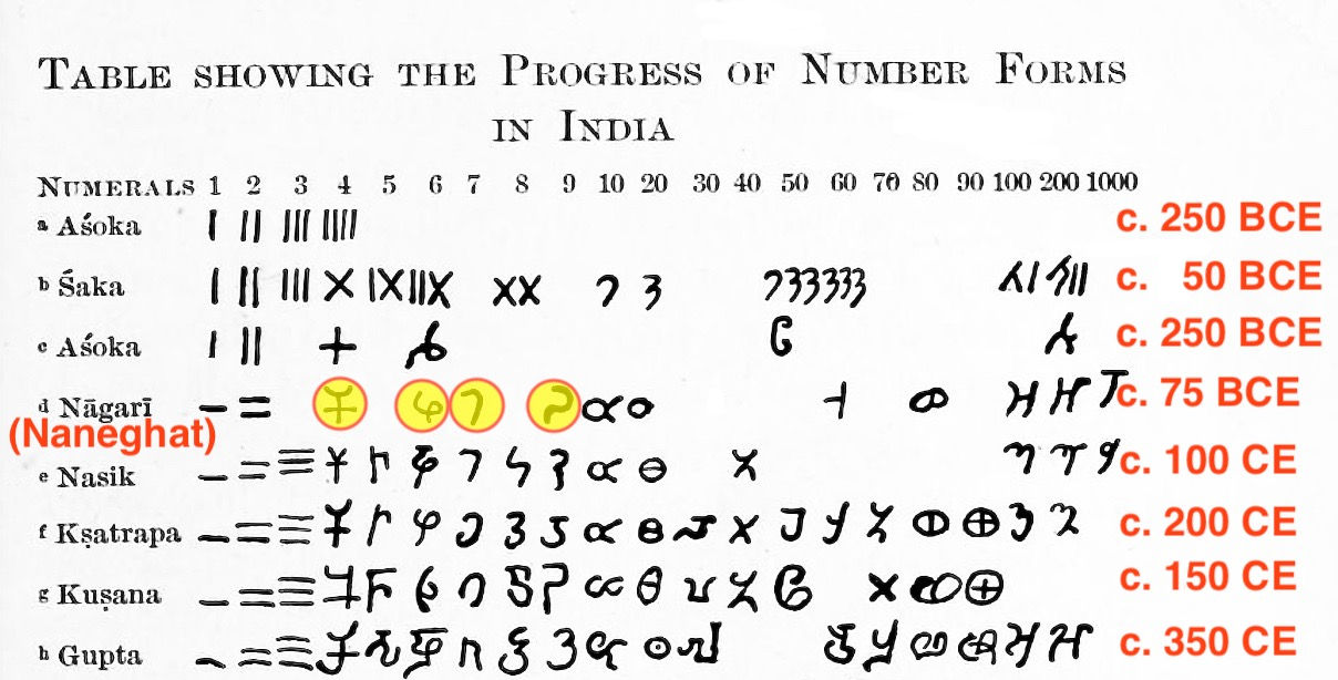 The image shows the evolution of numeral shapes over time in ancient India. Please note that the subcontinent is large and the scripts for numerals vary regionally. The figures above are based on most well studied stone inscriptions dated to approximately as shown in the picture. This is an annotated photograph of a 2D-Art published in 1911 from a personal copy of the book. The year of publication can be verified here on page 25 by David Smith (died 1944). The image falls under PD-Art-100-70 guidelines. Any rights I have, I herewith donate it to wikimedia commons with Creative Commons 4.0 license.